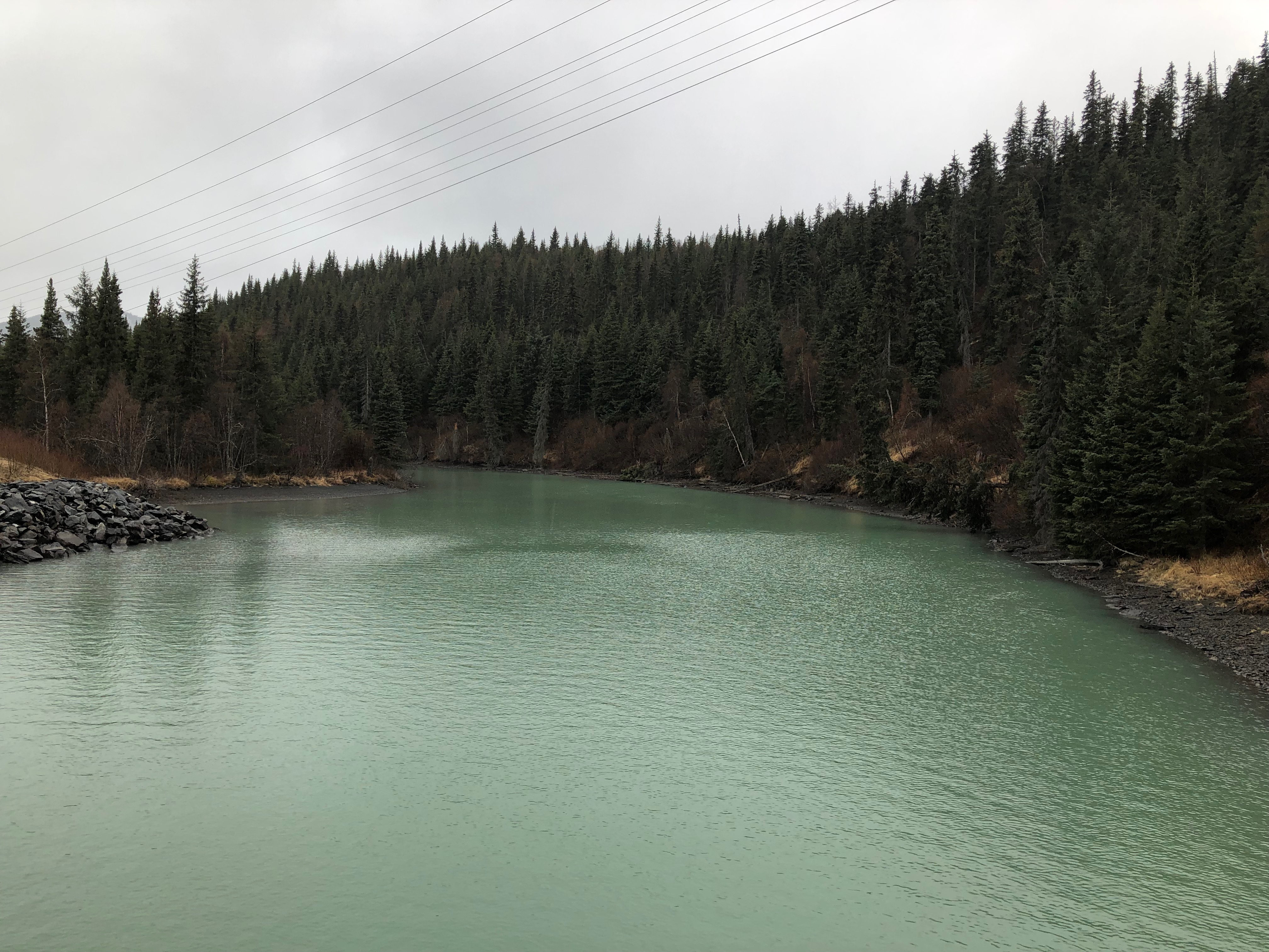 Trail Creek from off the highway